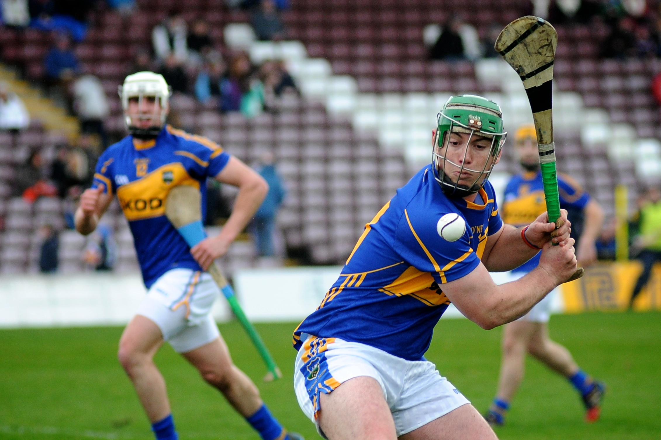 John O'Dwyer in action for Tipperary against Galway in the 2014 National Hurling League